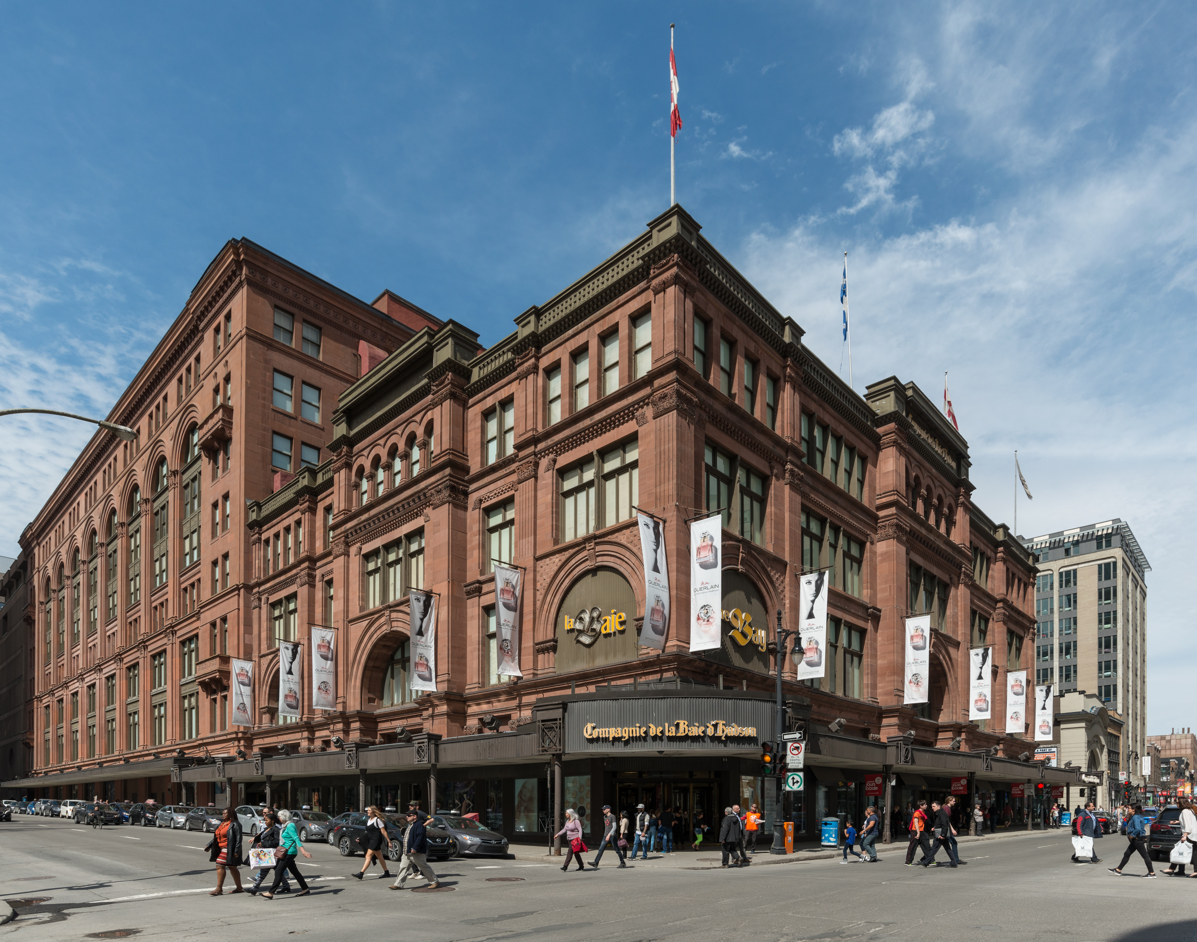 A Hudson's Bay Company store located at 585 Rue Sainte-Catherine in Montréal